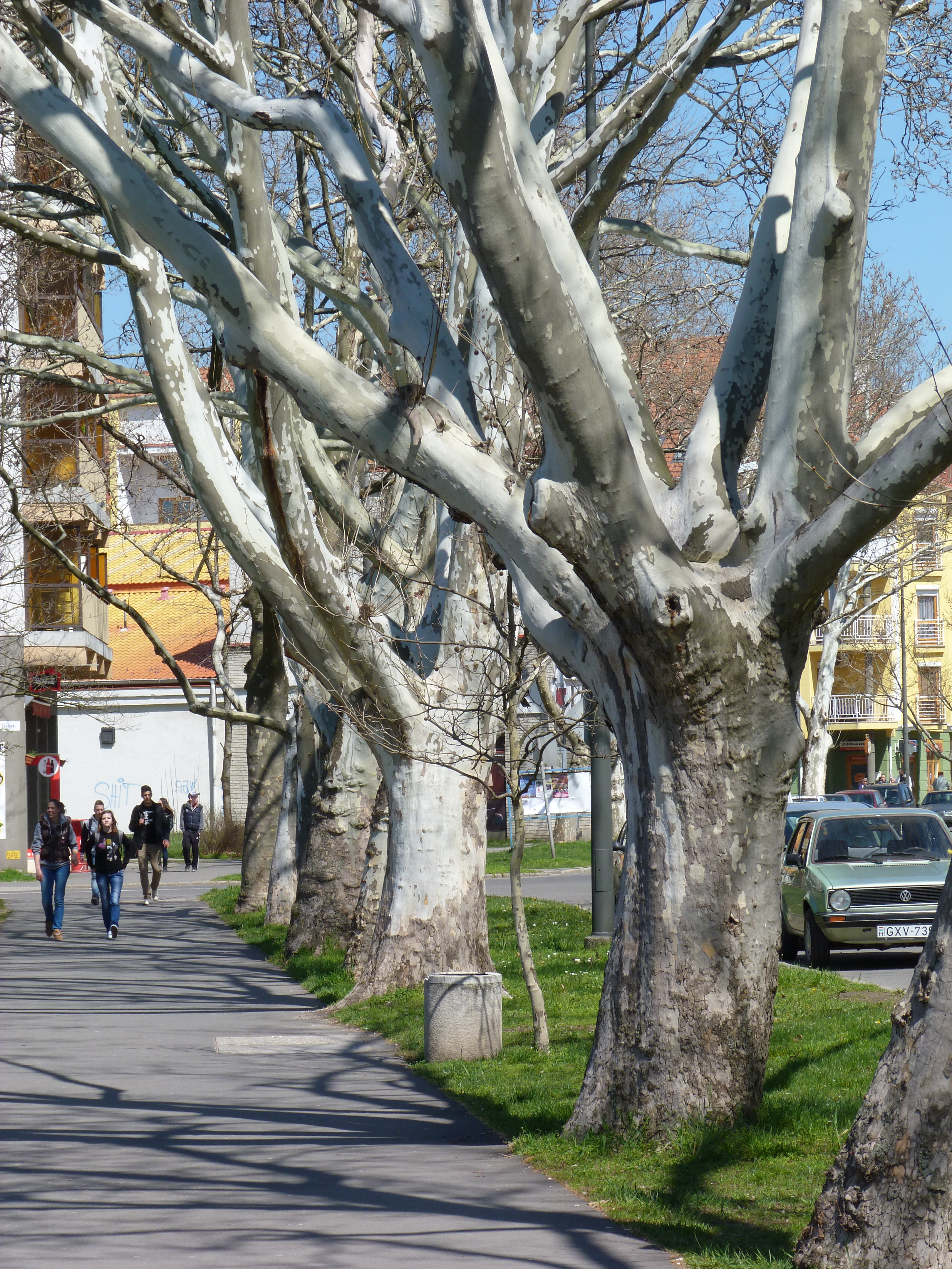 Live on Thursday, 15th of April, 2013. Békéscsaba, Hungary. After a cold, winter like period, a really nice day we are having. ©© Derzsi Elekes Andor, Budapest, 2013, You are authorised to use these photos and vids under Creative Commons – even for commercial, for profit purposes. Photos must be attributed to Derzsi Elekes Andor. All of the photos and vids in the Metapolisz DVD line are under Creative Commons and can be used even for commercial – for profit – purposes. Recommended Citation Derzsi Elekes Andor: Metapolisz DVD line A felvételek 2013. Április 15 –én, szerdán készültek Békéscsabán.